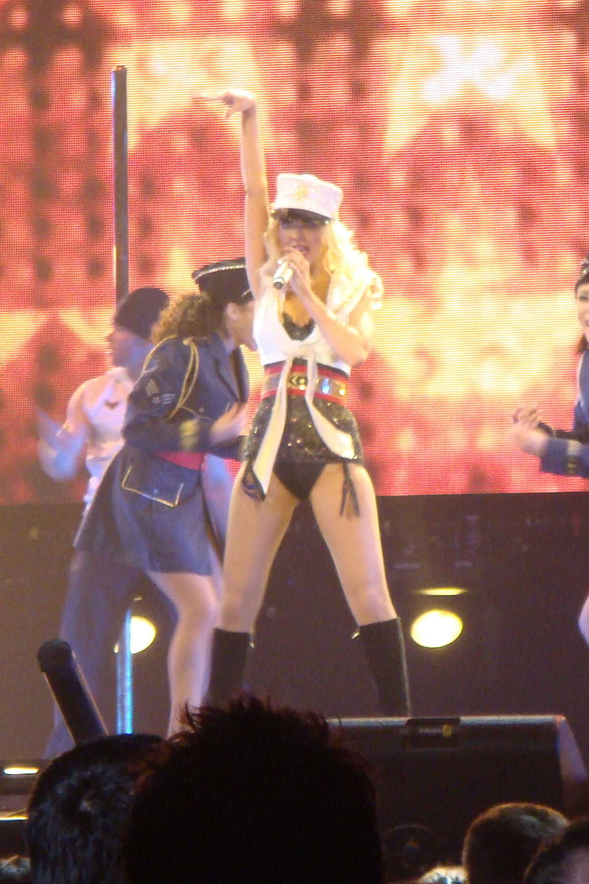 Christina Aguilera, "Candyman"